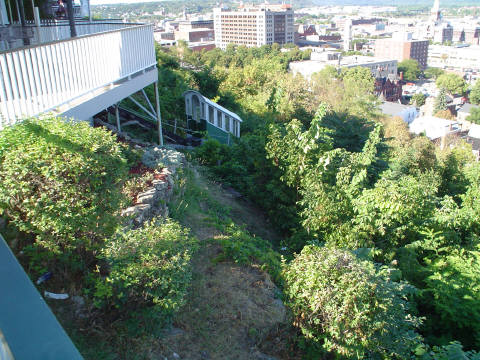 This is a photo of one of the Fourth Street Elevator cars as it approaches the operator house at the top of the bluff.